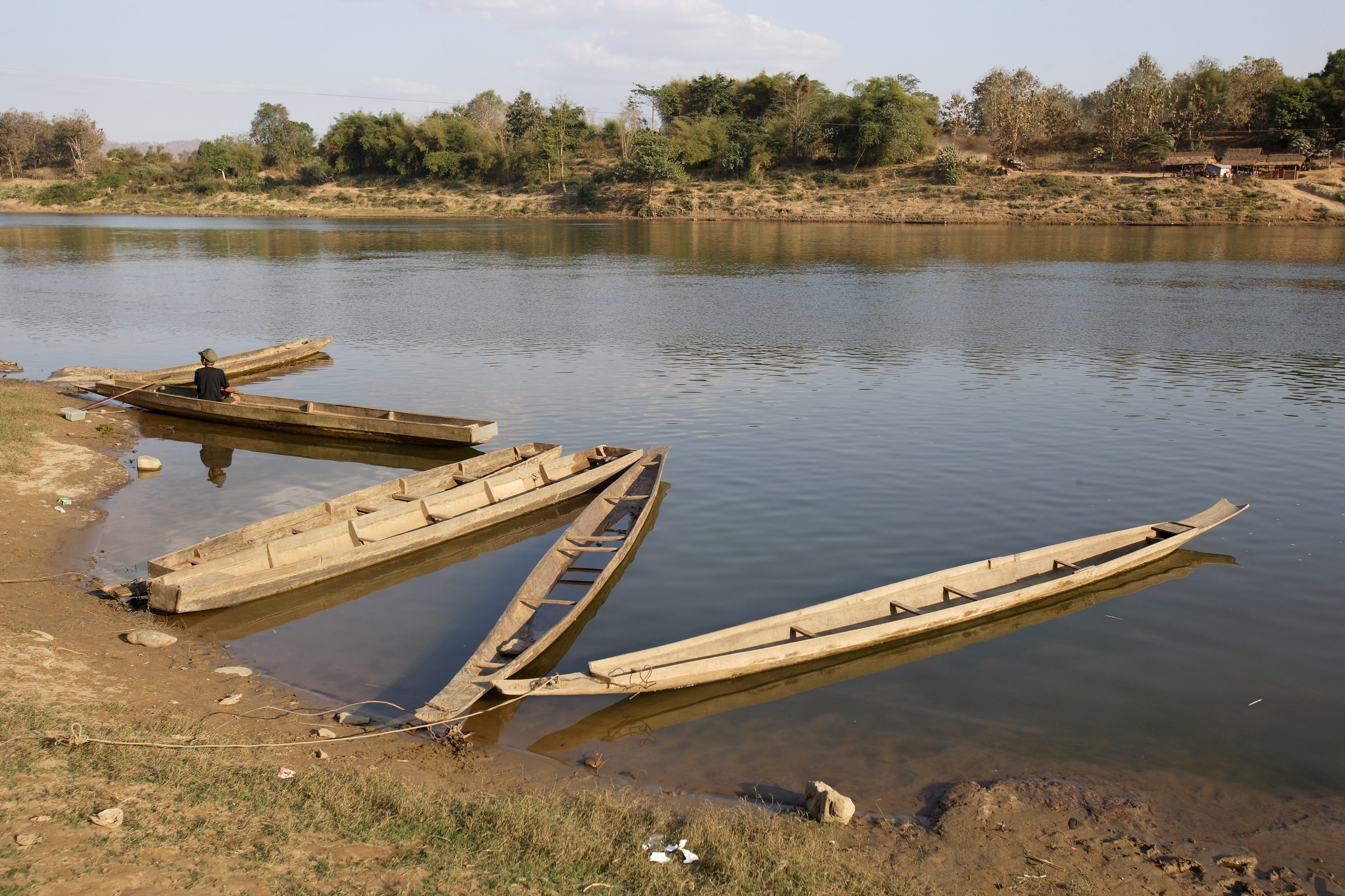 Landscape of boats on the Sekong River which passes through southern Laos before it’s confluence with the Mekong River. Sekong, Lao PDR, 2009.